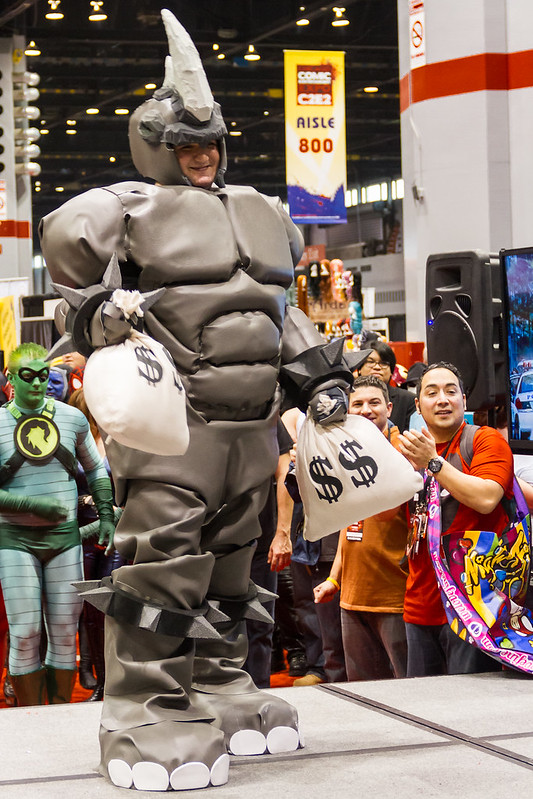 Cosplay of Rhino Marvel comics